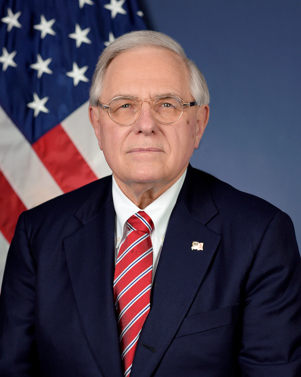 Ronald Batory official photo